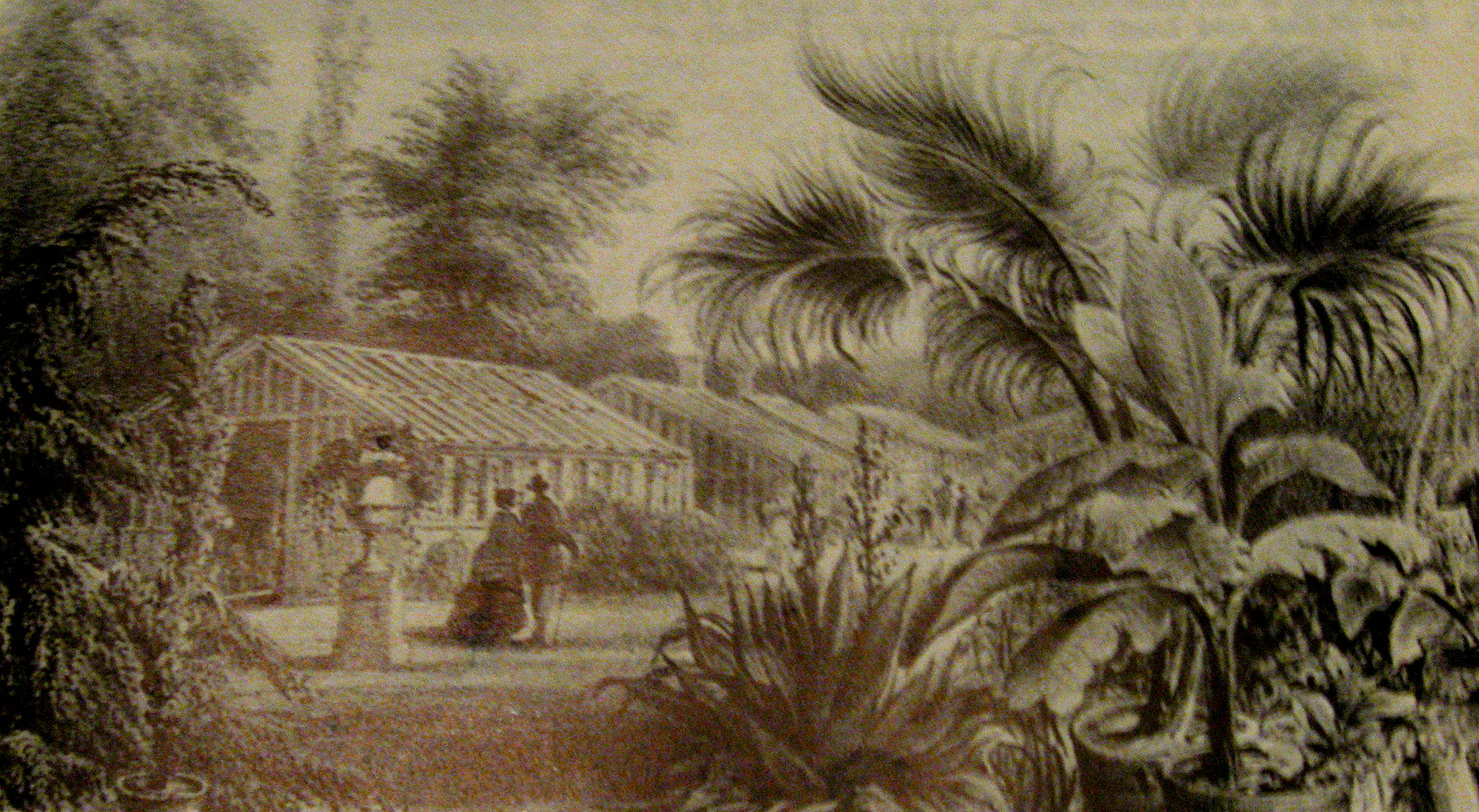 Masters’ Exotic Nursery: an exotic garden with two springs with supposed medicinal waters and a very tall Lombardy poplar 16ft in girth at base. The nursery occupied 30 acres of land just inside the Westgate, in Canterbury, Kent, England. The nursery stretched northward from Welby Square. The gardens were dismantled and sold in 1896. The square was replaced by Westgate Lane, and West Gate Hall and a car park are now on the site of the garden.